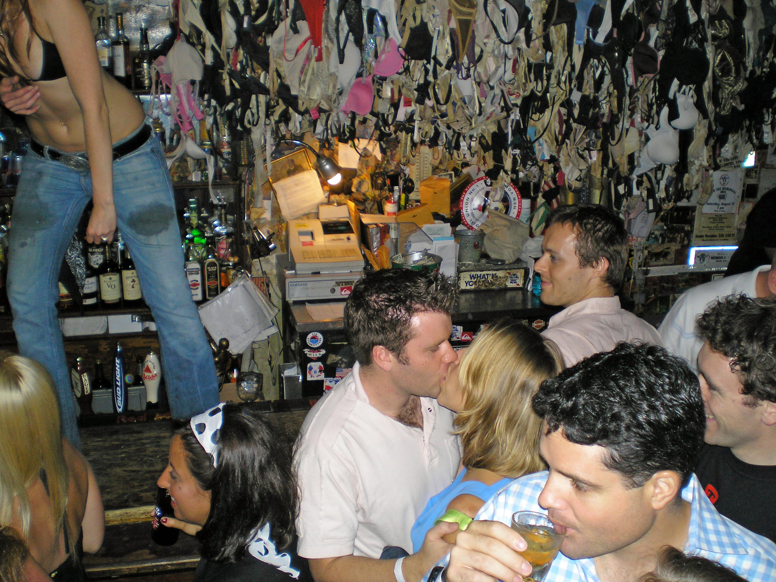 A girl bartop dances at famed bar Hogs n' Heifers in the Meatpacking District of Lower Manhattan, New York City.